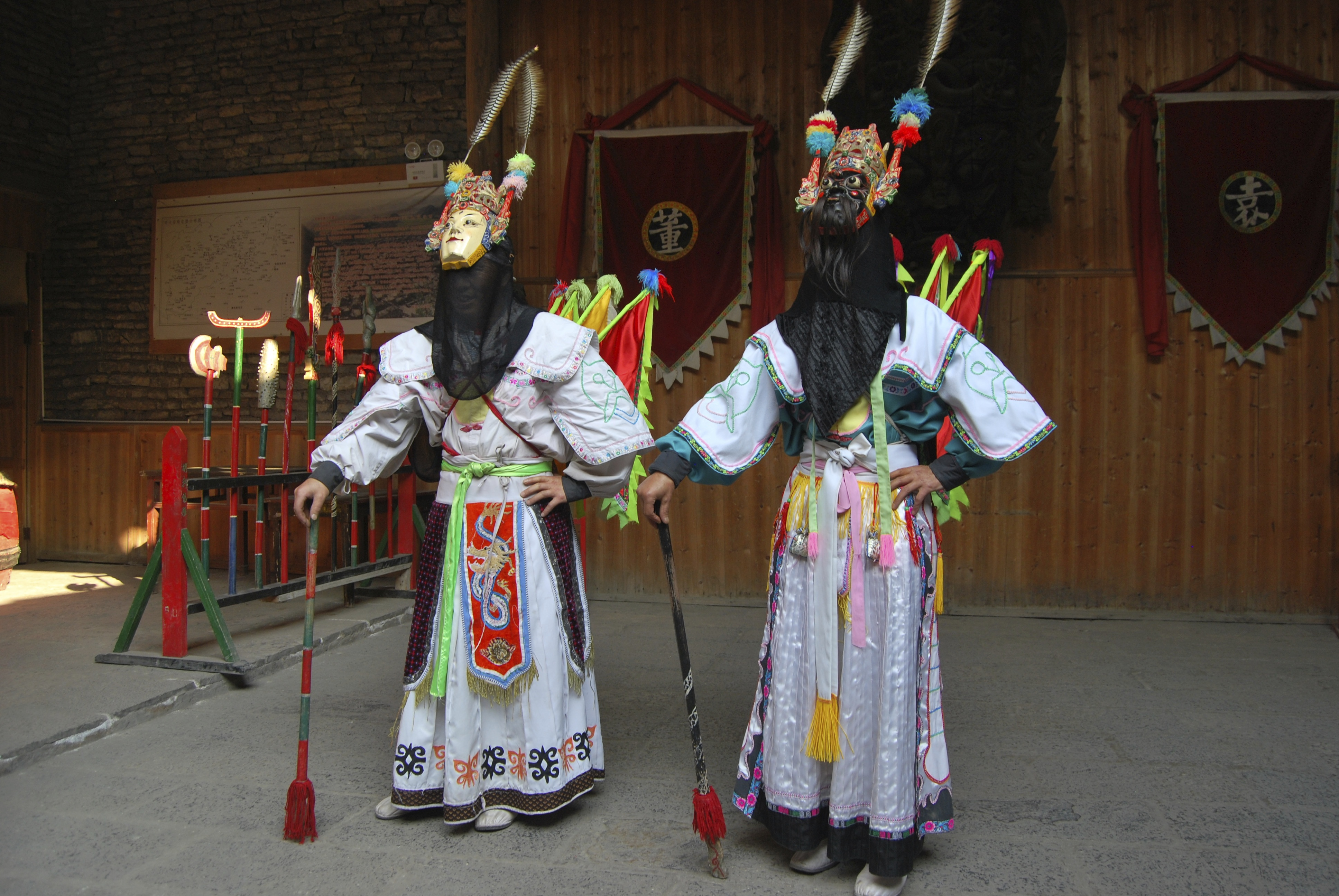 The Tungbao village (屯堡) in Guizhou (贵州) is host to this traditional mask dance. The people in the village are Han Chinese, unusual for Guizhou, who still dressed in Ming clothes (unusual for anywhere). They descend of soldiers in an army sent to put down unrest in Guizhou during the Hongwu emperors time, in early Ming. This photo has been taken in the country: China